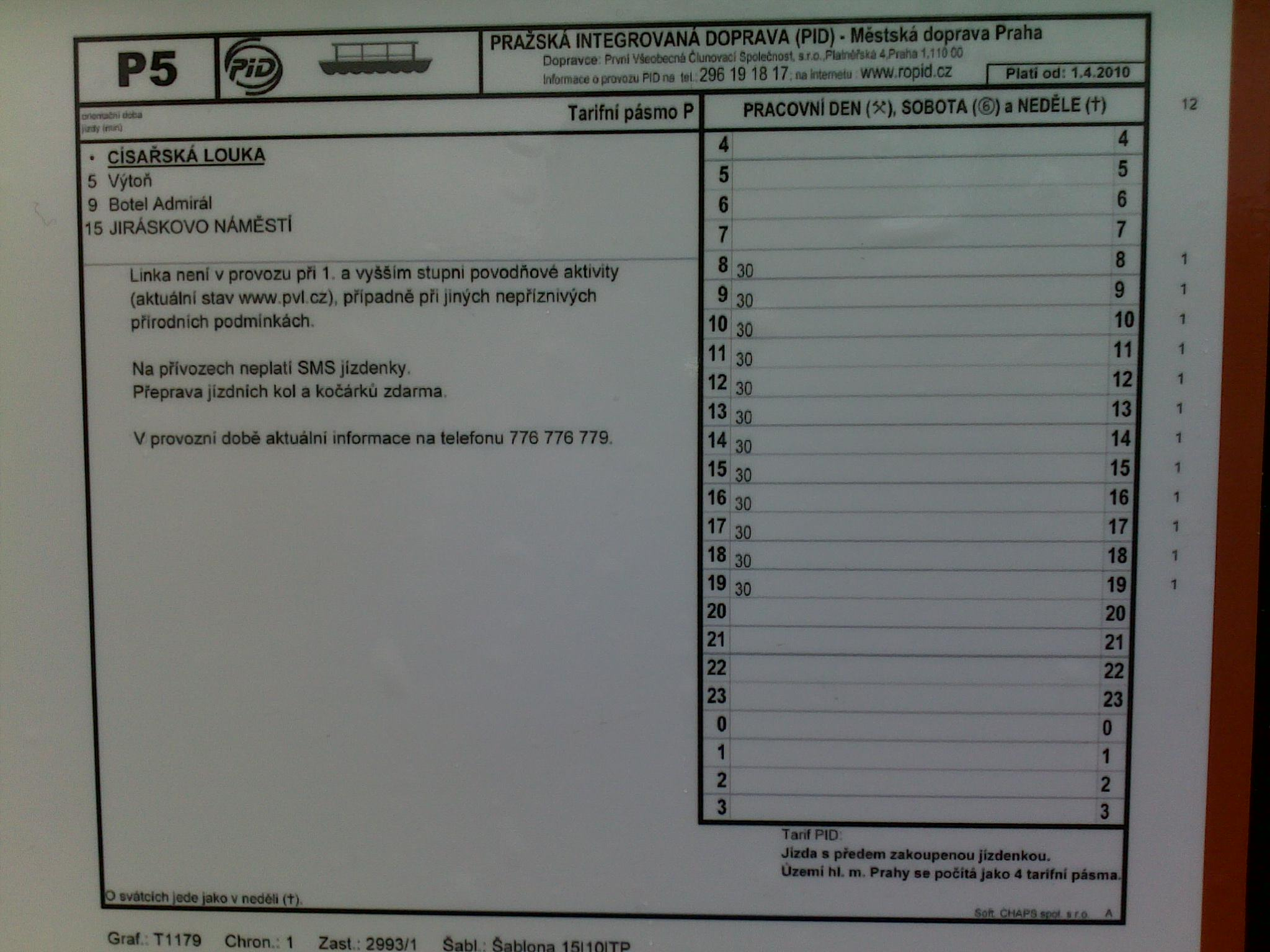 Ferry P5, Prague, the Czech Republic.